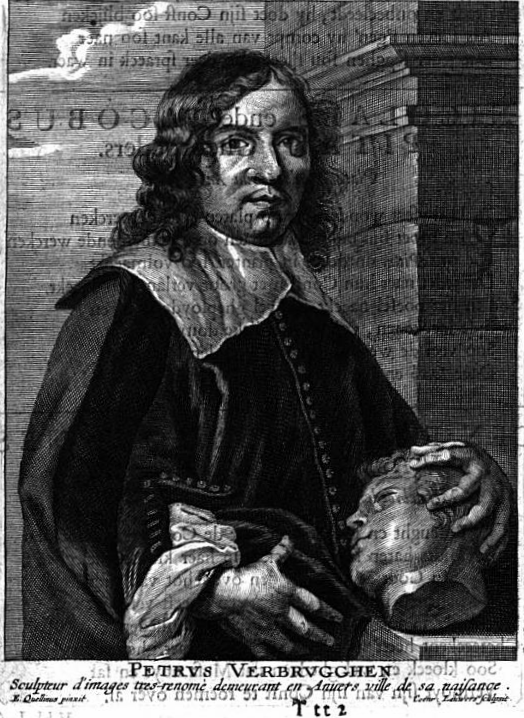 Portrait of Petrus Verbruggen in Cornelis de Bie's Gulden Cabinet.